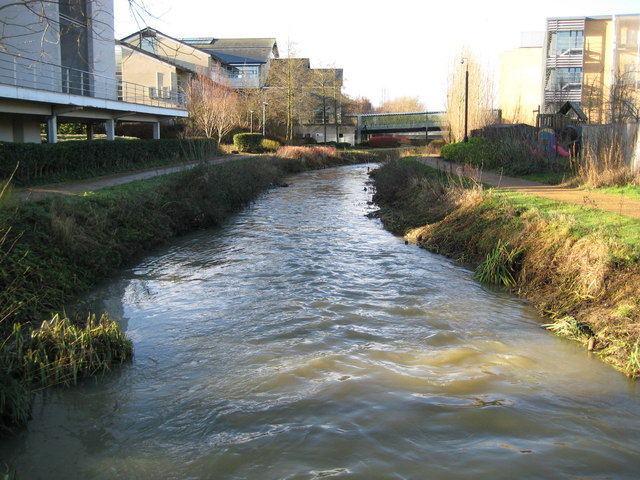 Littlemore Brook in the Oxford Science Park Littlemore Brook is a tributary of the River Thames that flows down from the Blackbird Leys estate. It is seen here looking downstream from a footbridge in the Oxford Science Park.